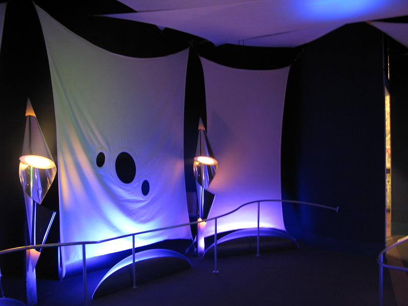 Hong Kong Science Museum Just Imagine